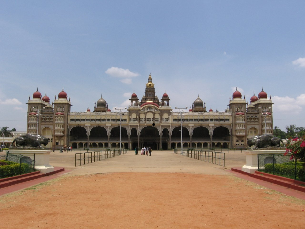 Mysore Palace.